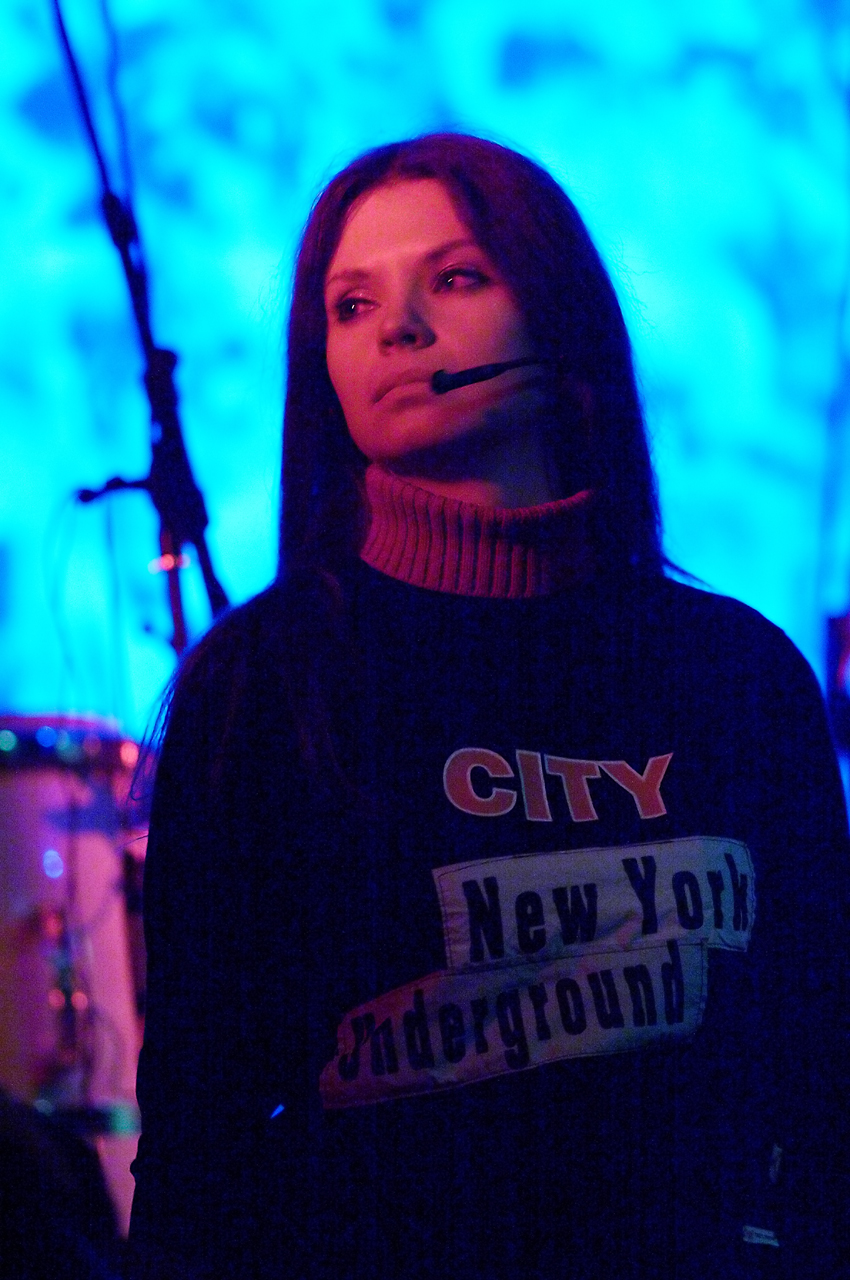 Alla Luzhetskaya playing with Fleur in Odessa (25.01.2008)